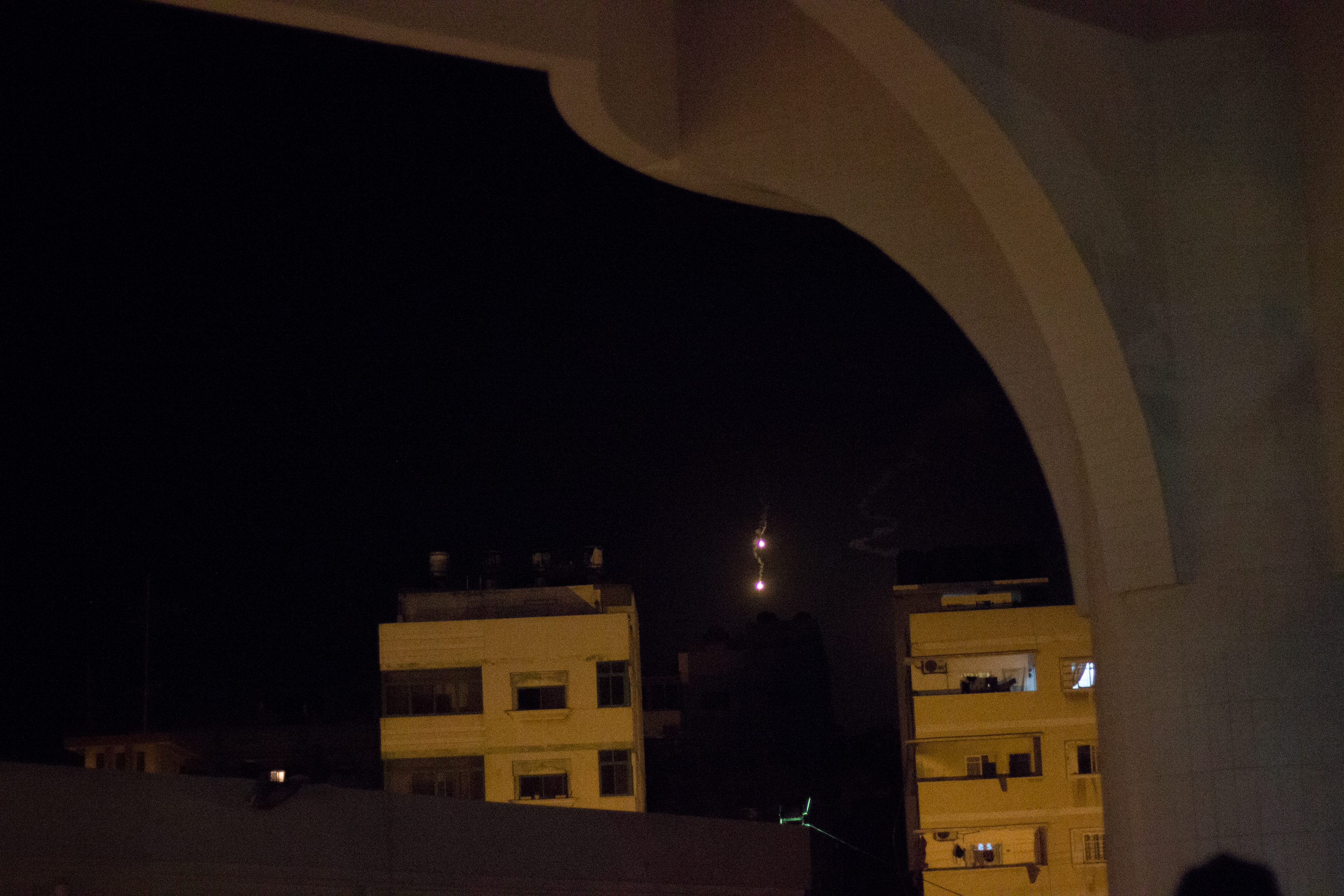 Israeli Air Forces throwing thermal lanterns over the northern borders of Gaza Strip. 7.8.2014